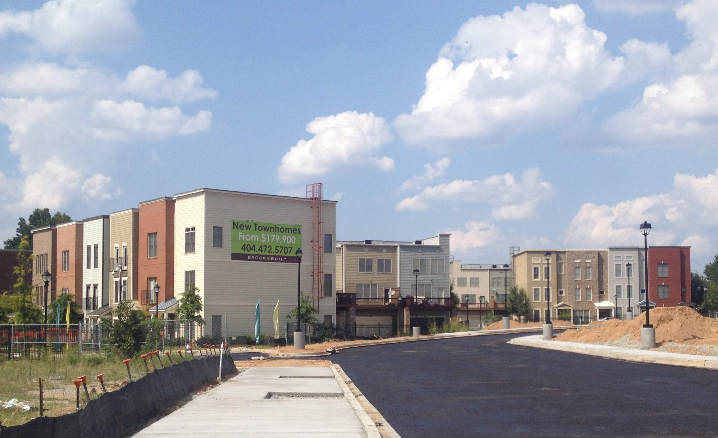 Westside Village, New development in Vine City, north side of King Dr.